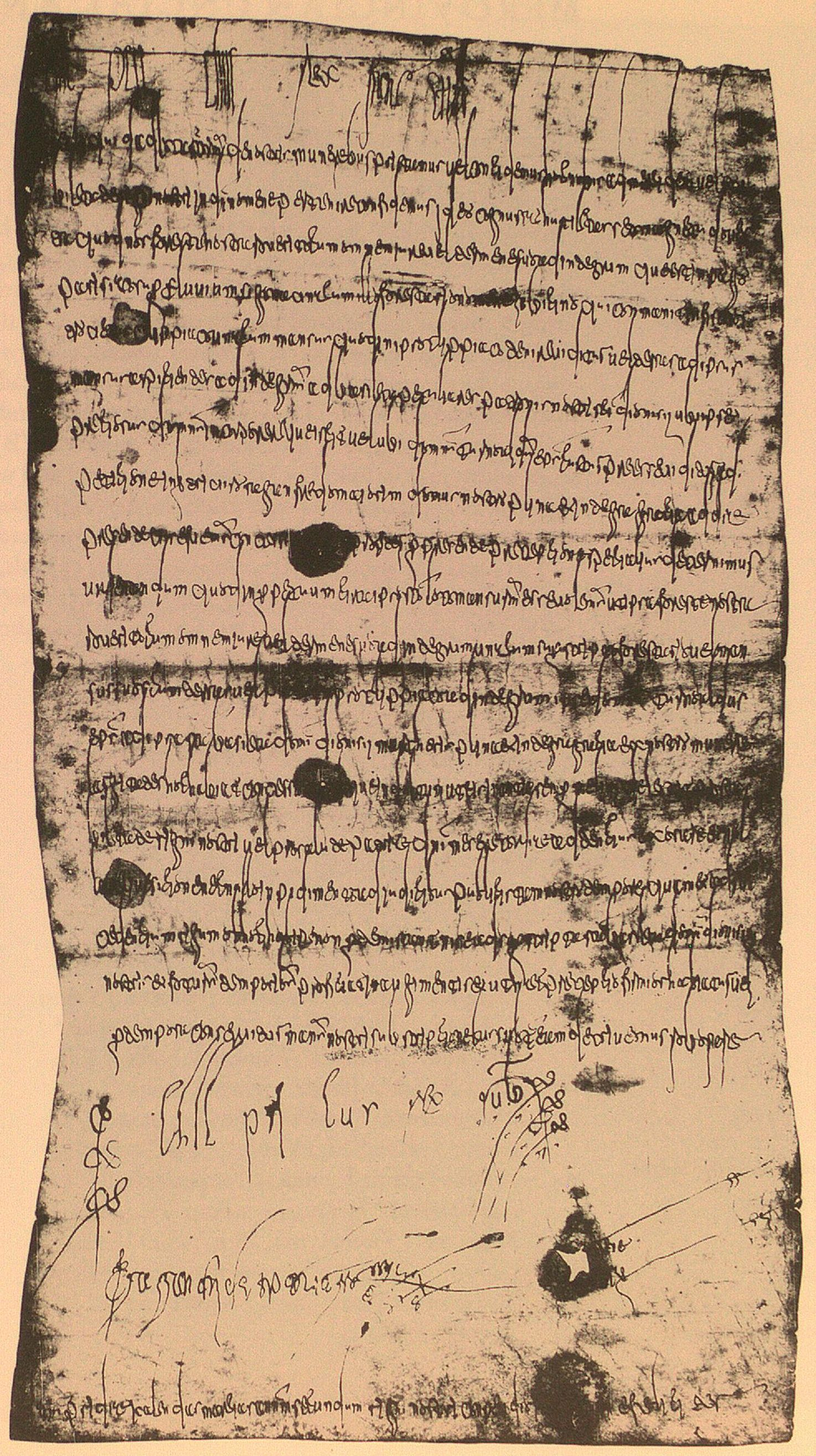 A charter for the abbey of St Denis. Paris, Archives nationales, K 4, No. 3.